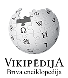 Wikipedia logo 2.0